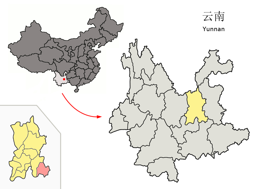 Location of Shilin County (pink) and Kunming prefecture (yellow) within Yunnan province of China Map drawn in september 2007 using various sources, mainly : Yunnan province administrative regions GIS data: 1:1M, County level, 1990 Yunnan Counties map from